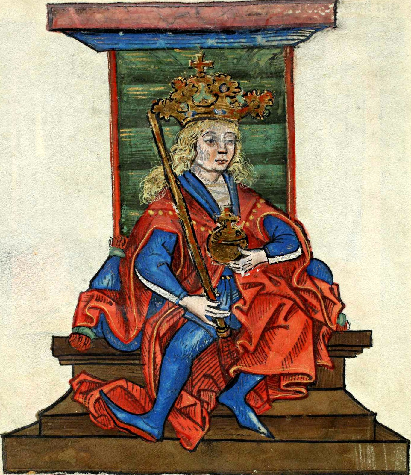 Stephen V of Hungary